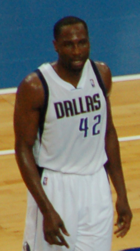 Elton Brand with the Dallas Mavericks, October 2010.